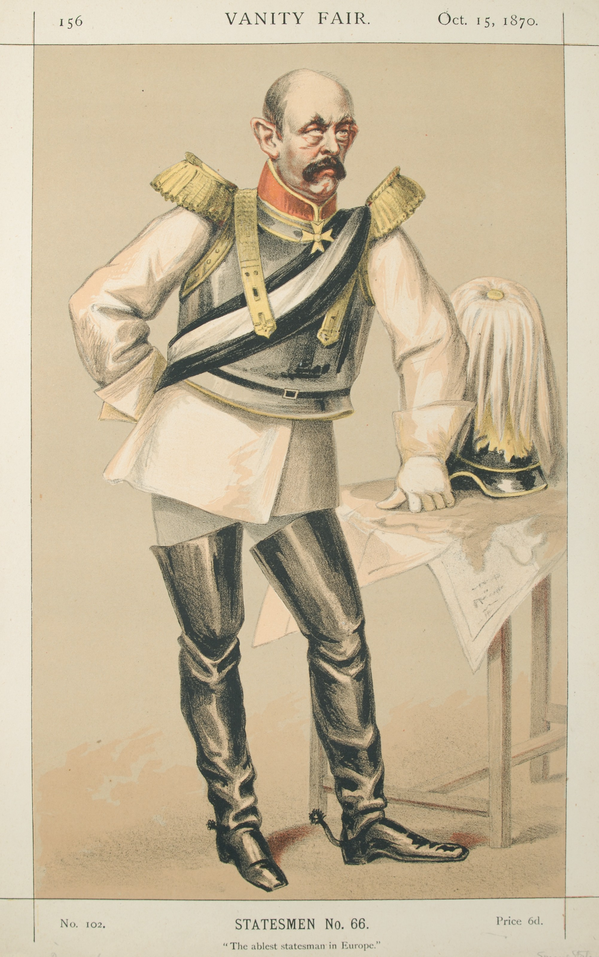 Statesmen No.66: Caricature of Count von Bismarck-Schoenausen. Caption reads: "The ablest statesman in Europe."